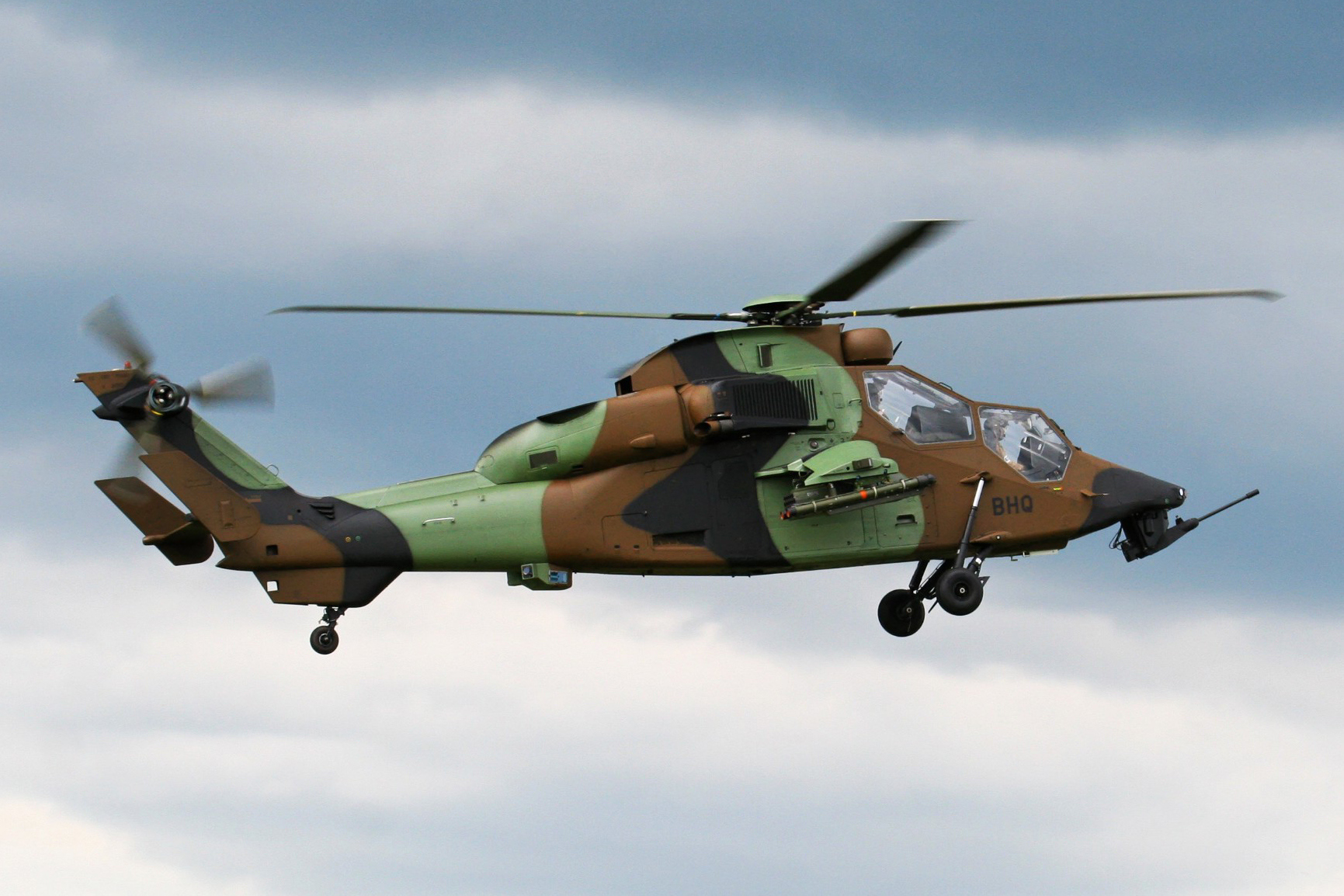 A Eurocopter Tiger combat helicopter. The cannon at the front follows the pilot's gaze by way of their helmet.